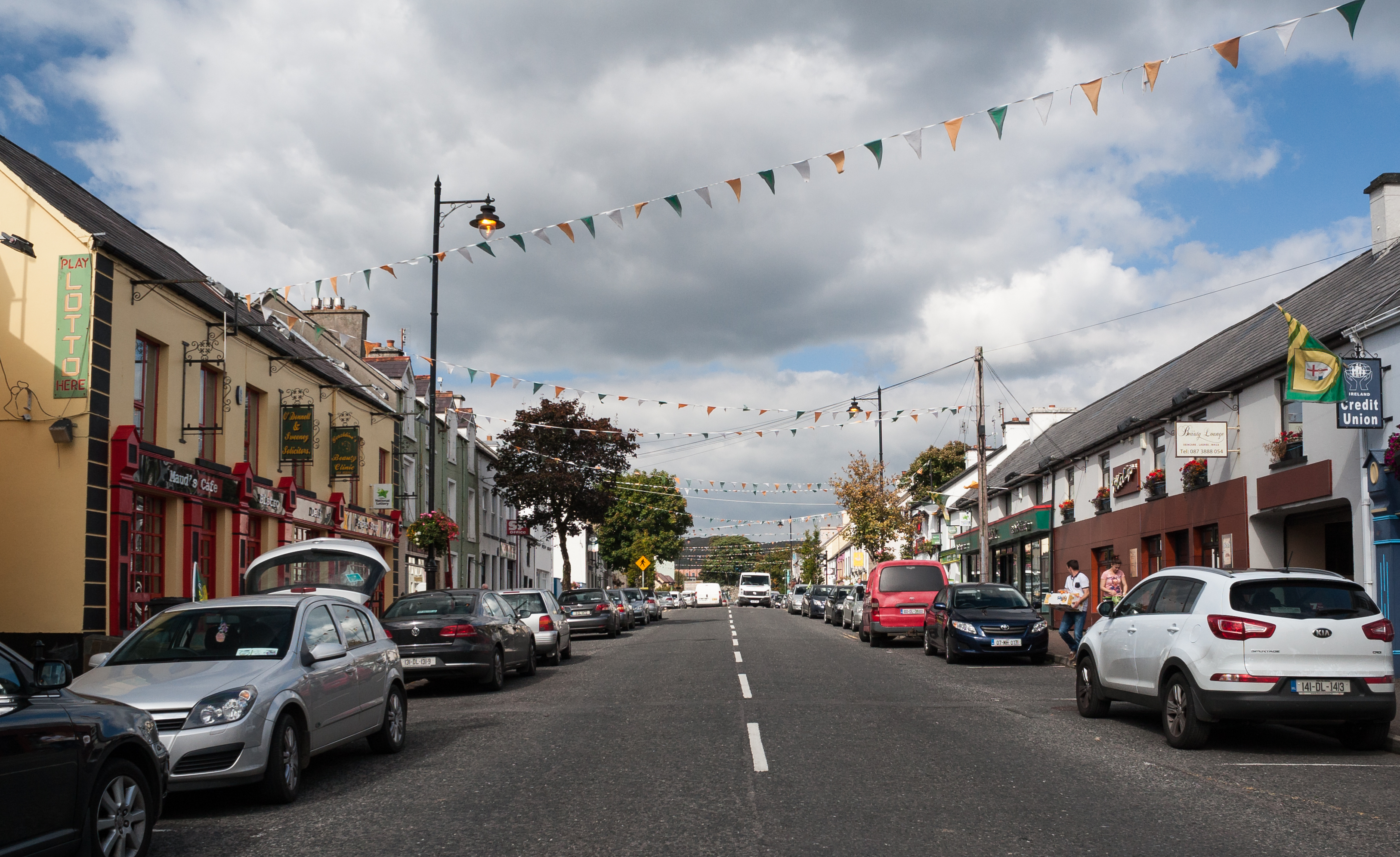 N56 and main street in Glenties, looking north.